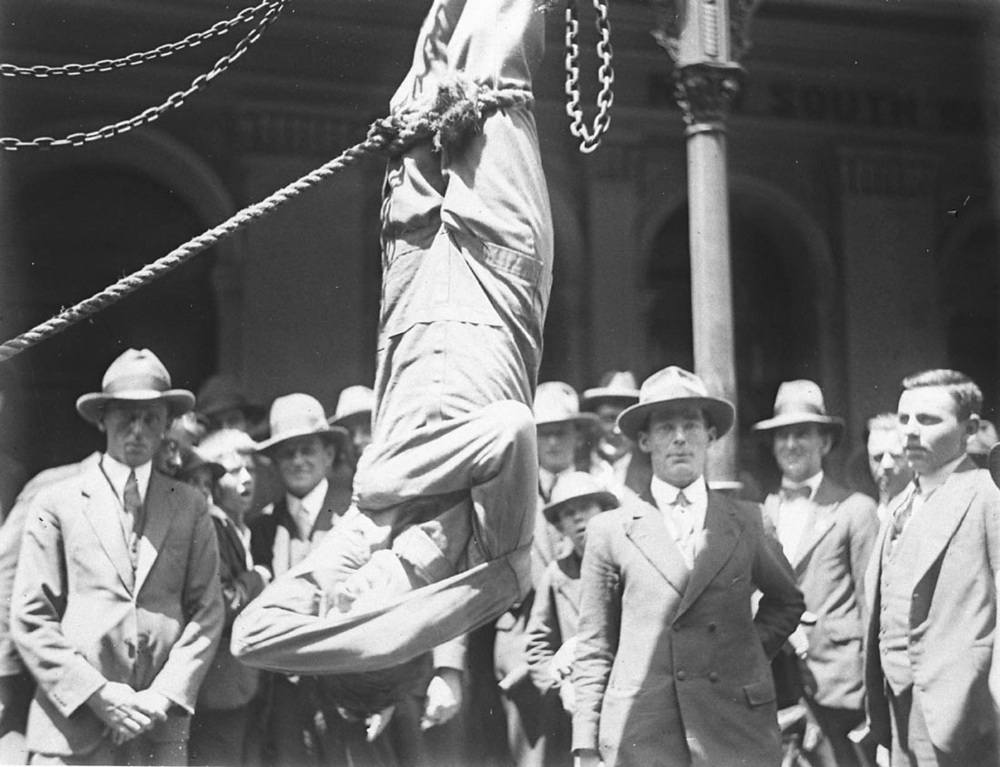 Murray, the esapologist, breaking loose from his bonds